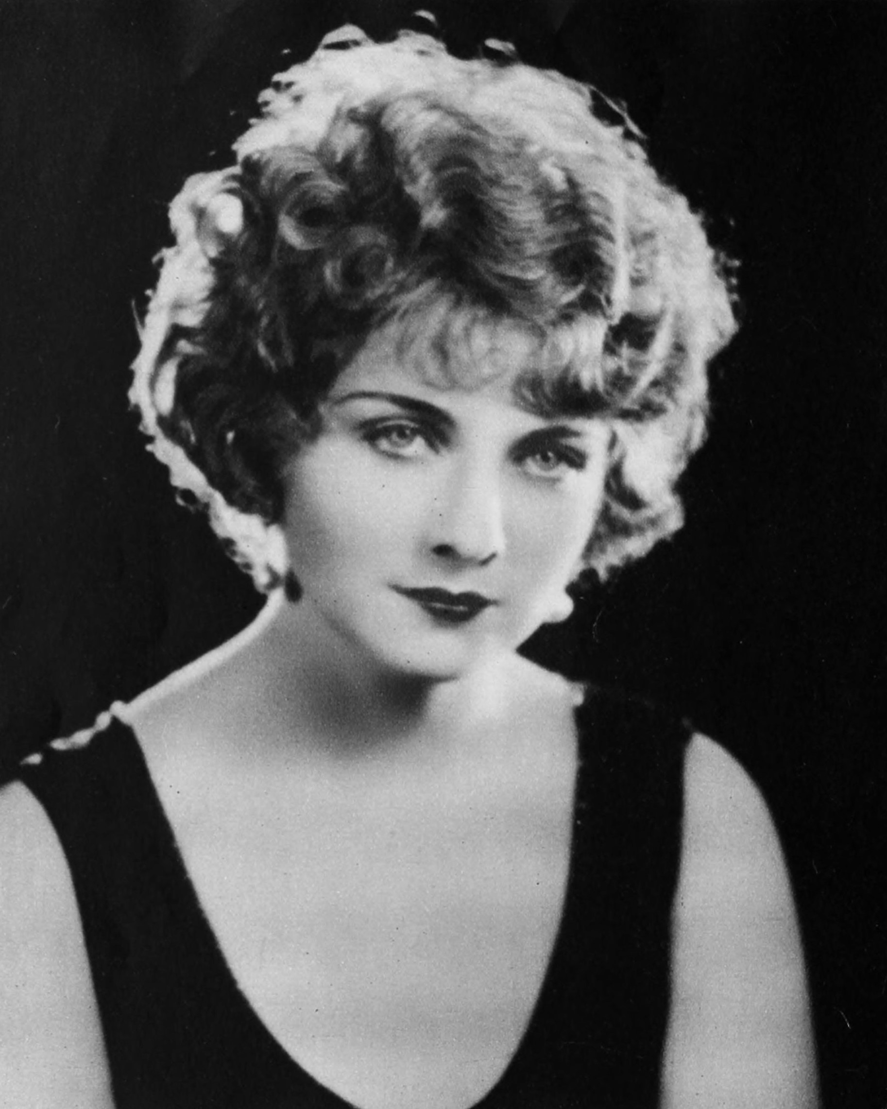 Publicity photo of Alice Terry from Stars of the Photoplay